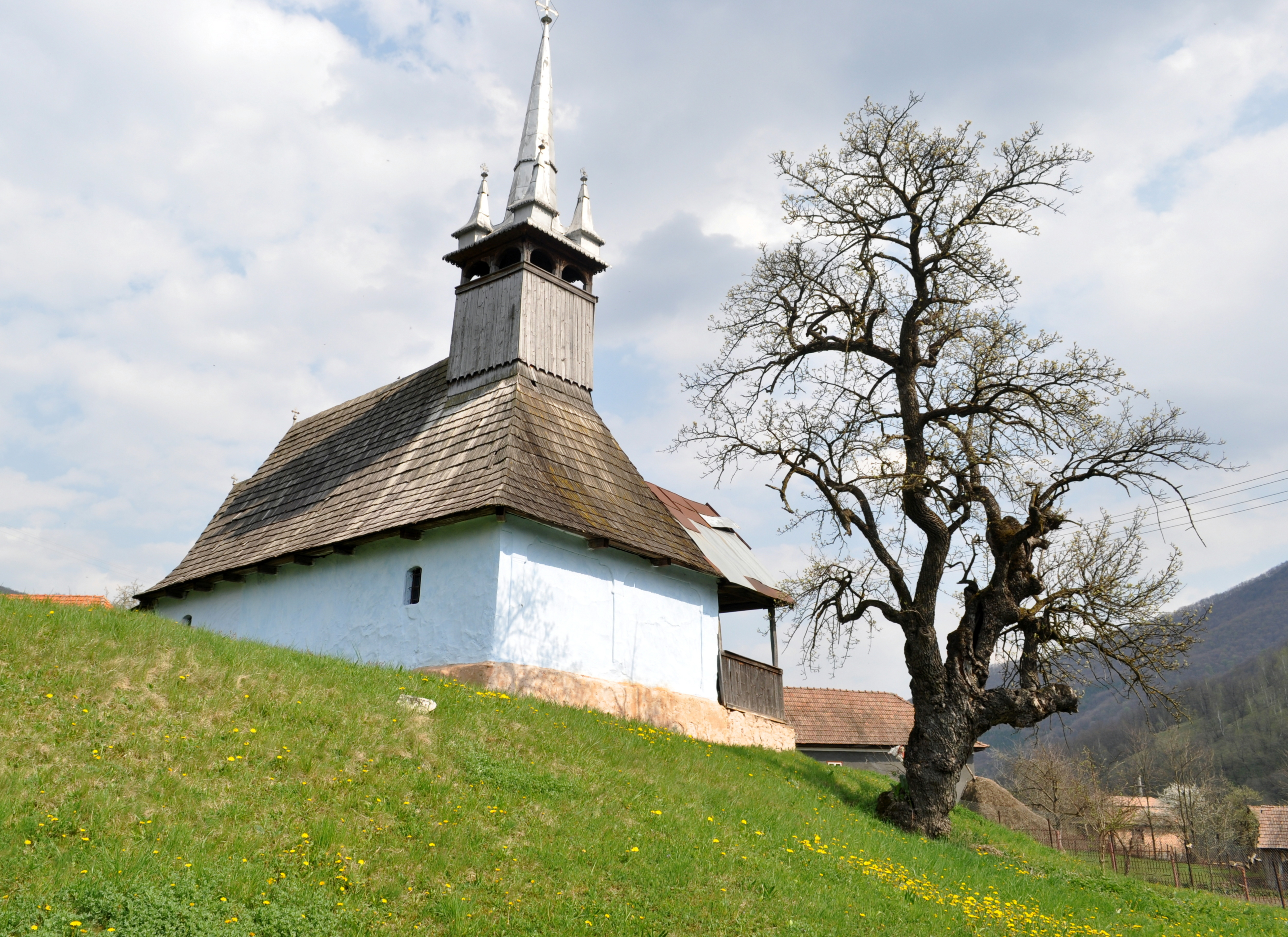 Wooden church in Surduc, Cluj County, Romania